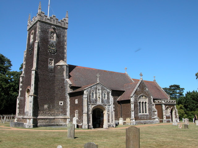 Parish church of St Mary Magdalene, Sandringham, Norfolk, seen from the south